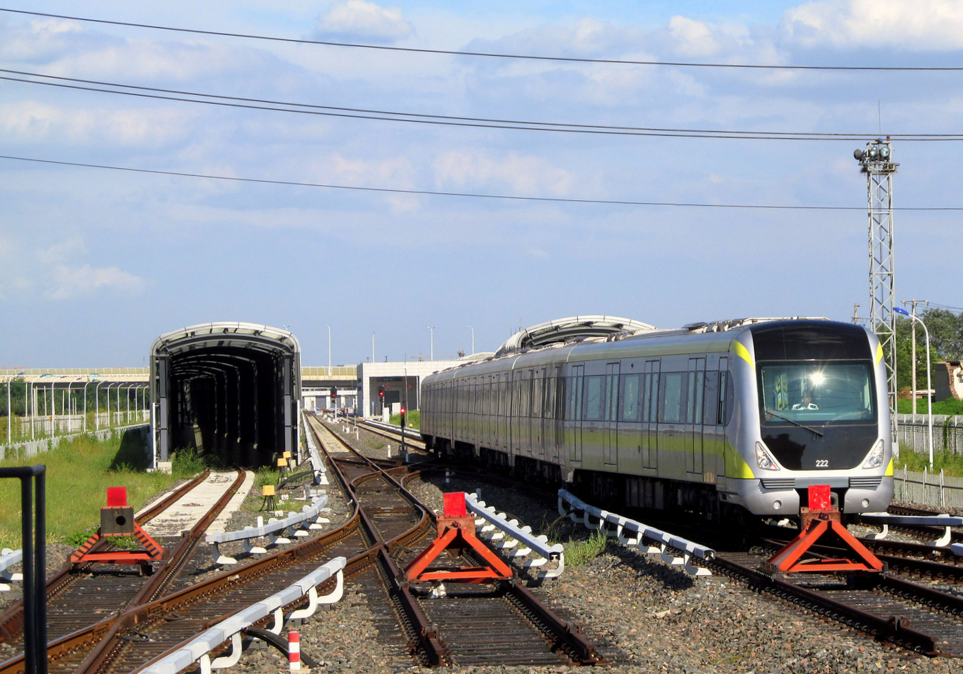 天津地铁2号线 空港经济区站